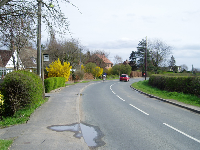 Temple Lane, Copmanthorpe. Looking towards Acaster Malbis